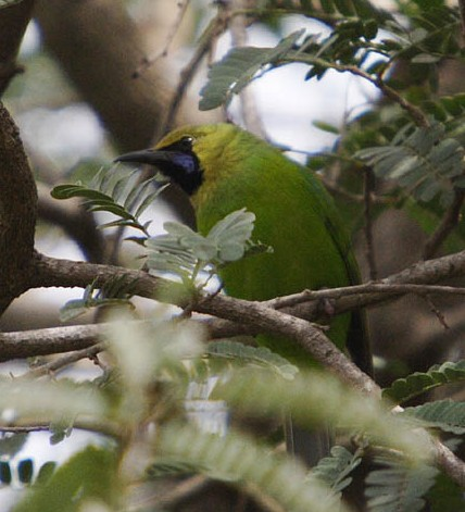 Blue-winged Leafbird/Jerdon's Leafbird.